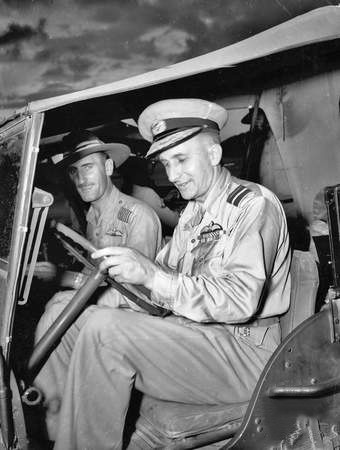 Torokina, Bougainville Island, Solomon Islands. The Chief of Air Staff Air Vice-Marshal Jones CB CBE DFC driving a jeep during his tour of inspection of RAAF units at Torokina. With him is Group Captain W. L. Hely of Melbourne, Vic, the Officer Commanding No. 84 (Army Co-Operation) Wing RAAF.